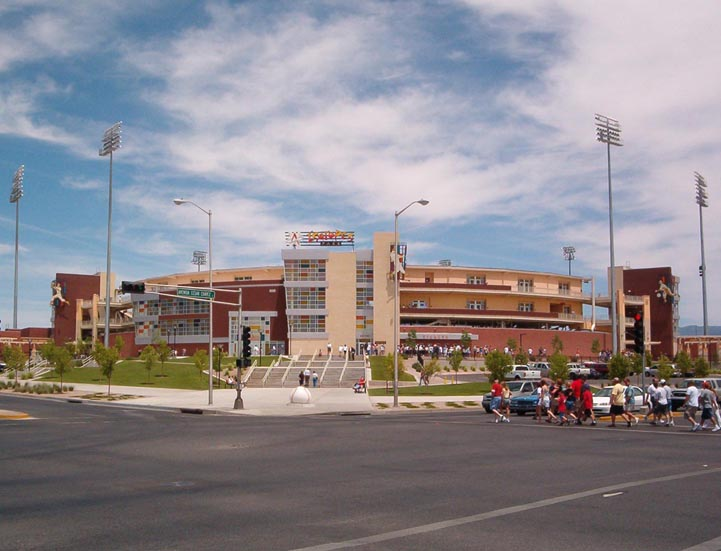 18:37, 3 July 2005 . . Camerafiend . . 721×551 (71,696 bytes) Isotopes Park, home of the Albuquerque Isotopes, in Albuquerque, New Mexico, USA. Photo by User:camerafiend.